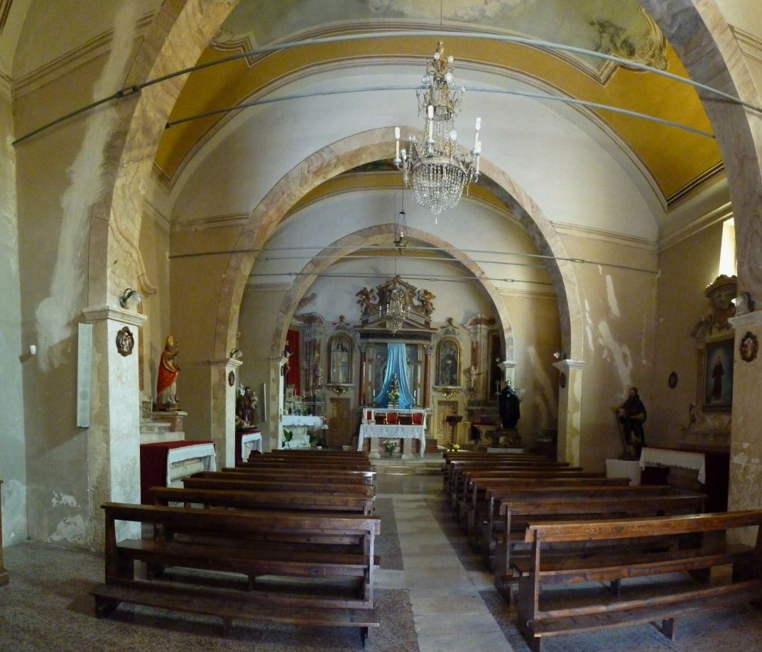 The church of Santa Maria delle Grazie, Cocullo, in the province of L'Aquila, Abruzzo